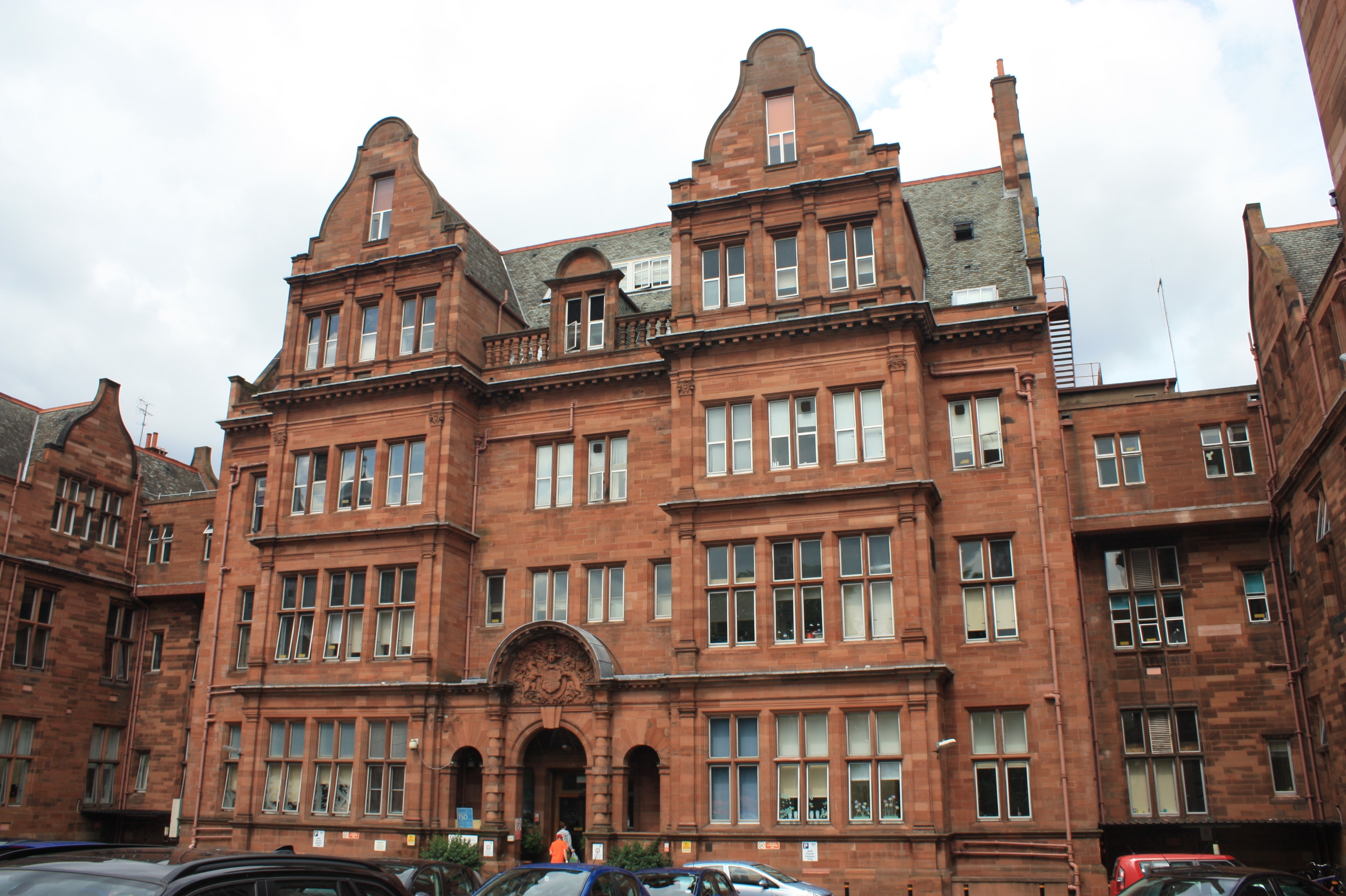 Sick Kids Hospital, Edinburgh